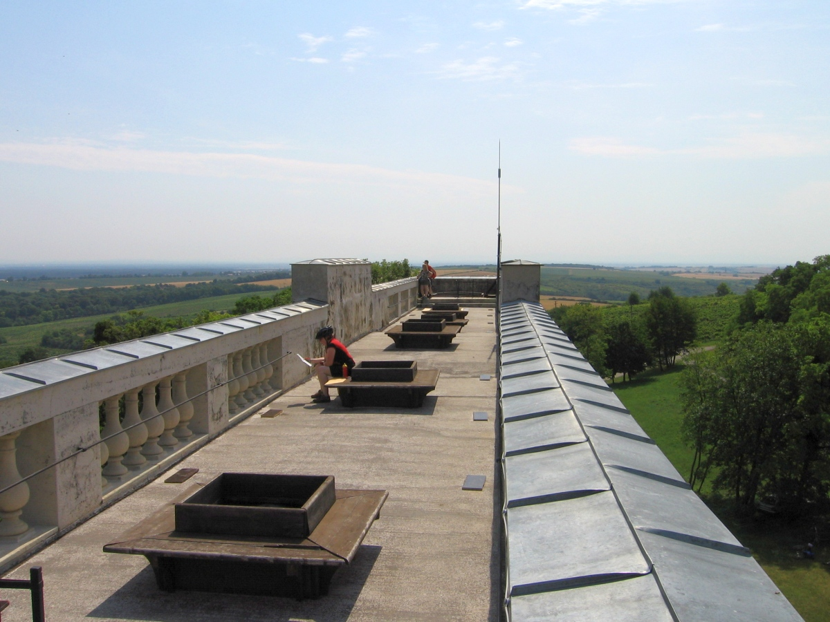 Colonnade on Rajstna, Lednice–Valtice Cultural Landscape.